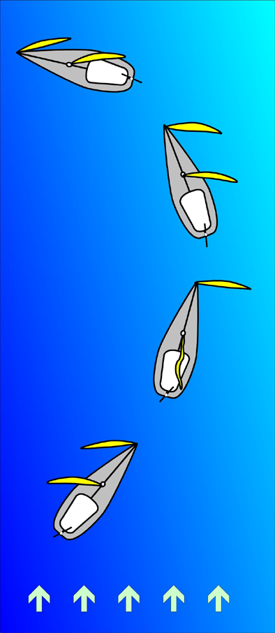 Jibe